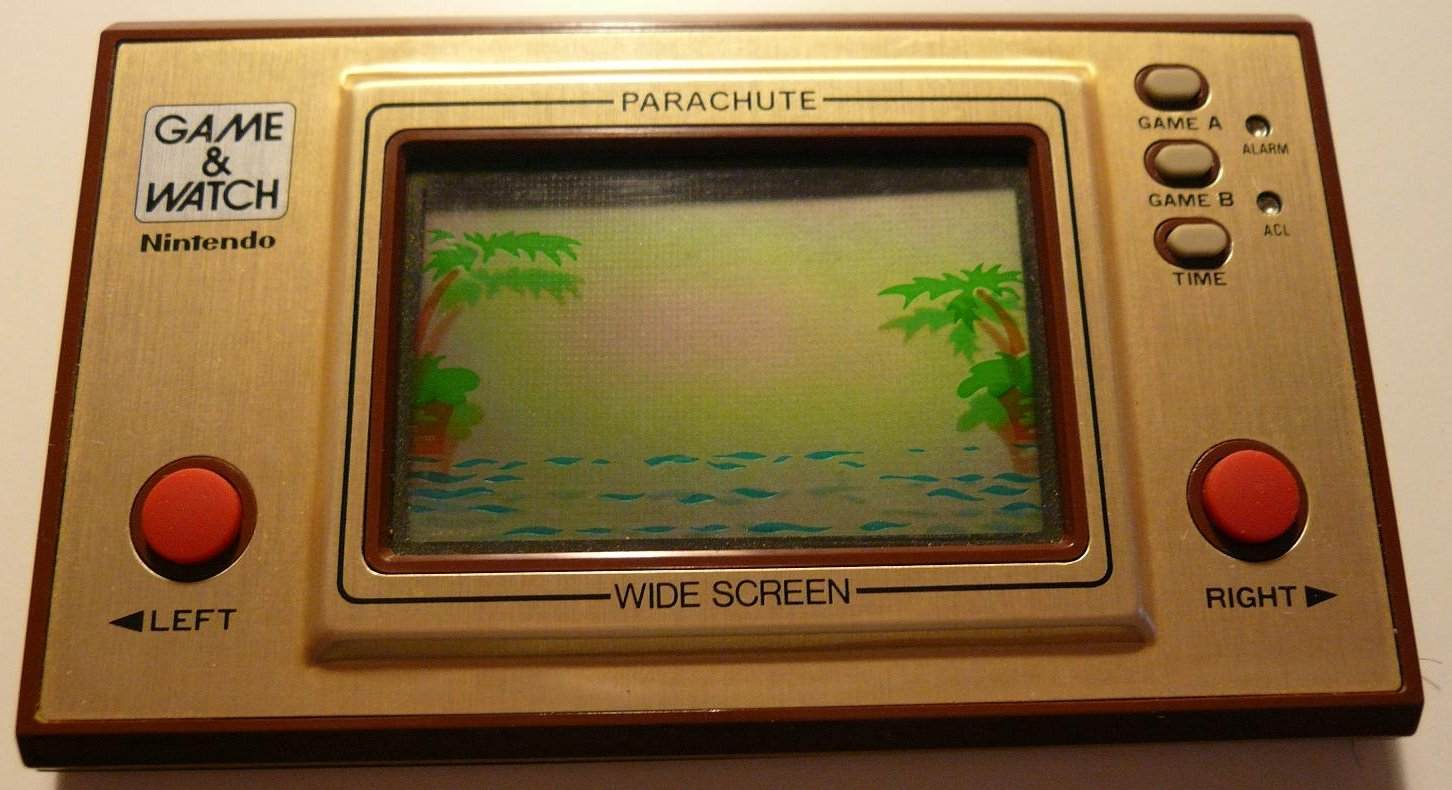 Parachute - Game&Watch - Nintendo